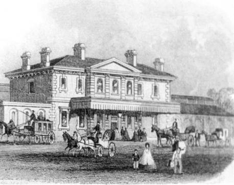 Kingston first station in 1863 on LSWR England